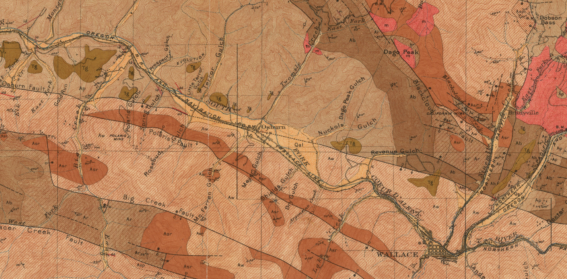 1907 Osburn Idaho geologic map, where m is monzonite and syenite, Ap is Prichard Slate, Ab is Burke Formation, Ar is Revett Quartzite, Asr is St. Regis Formation, Aw is Wallace Formation, Asp is Striped Peak Formation, Tg are Tertiary terrace gravels, Qgl is Quaternary glacial deposits, Qal is Quaternary alluvium, x is a prospect pit and y is a tunnel